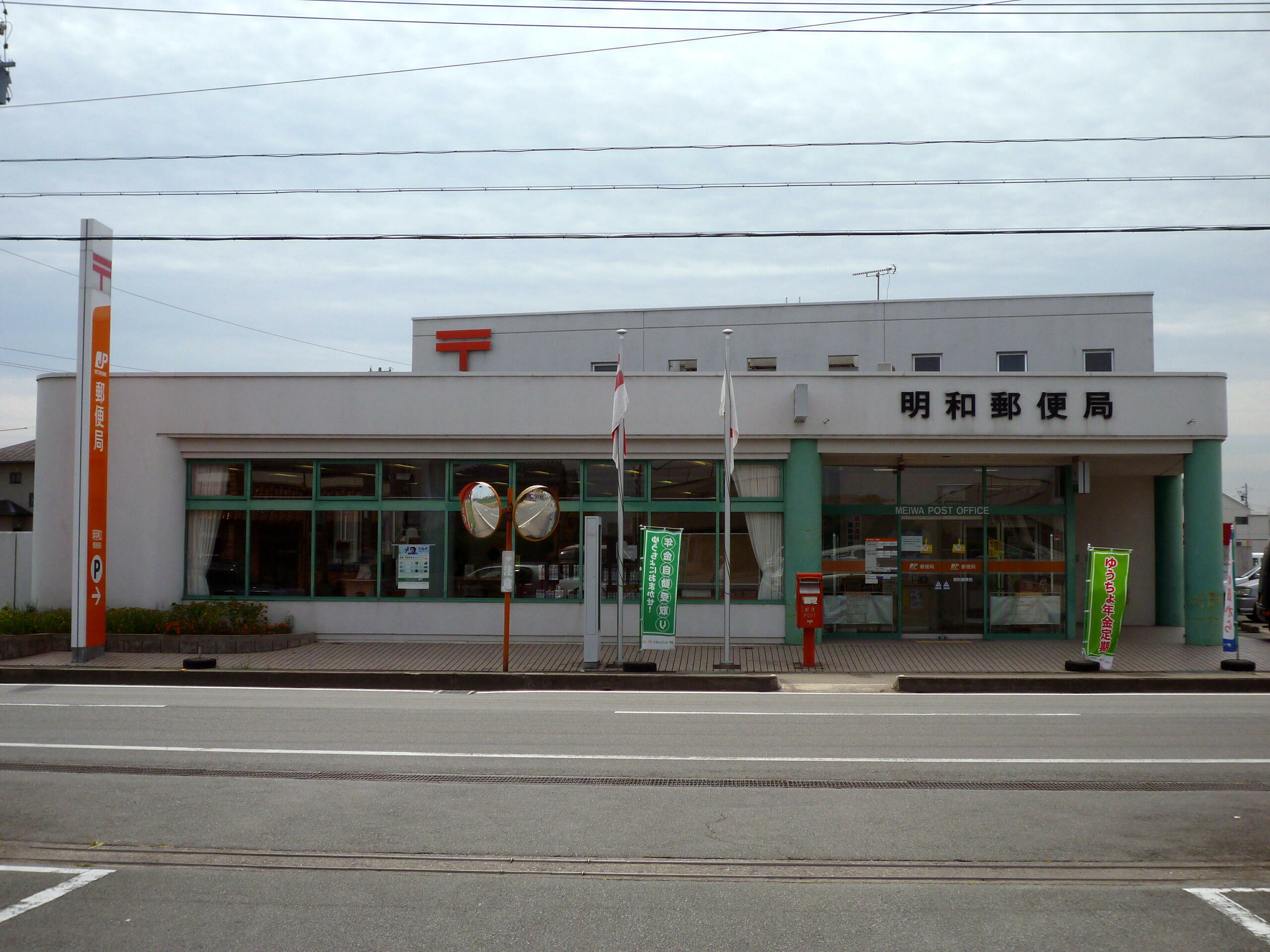 The "Meiwa Post Office" in Meiwa Town, Taki District, Mie Prefecture, Japan.